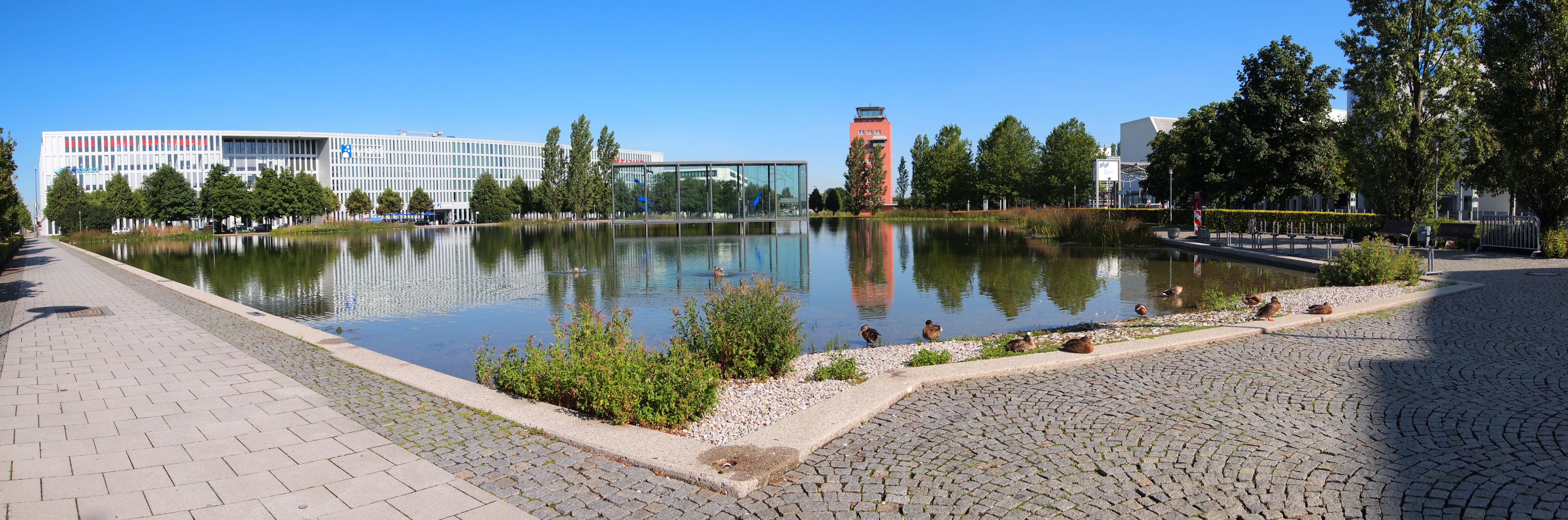 Messesee panorama, Munchen. This photograph was taken with an Olympus E-PL1